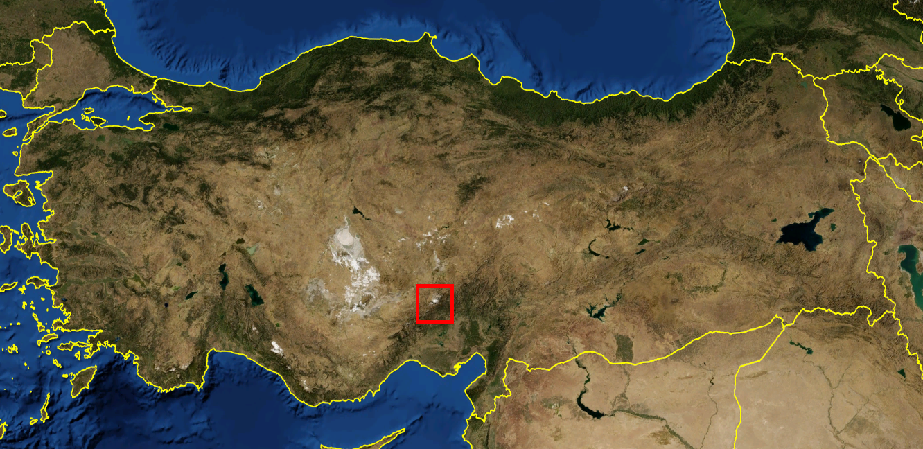 physical map of Turkey, with Aladağ range showed